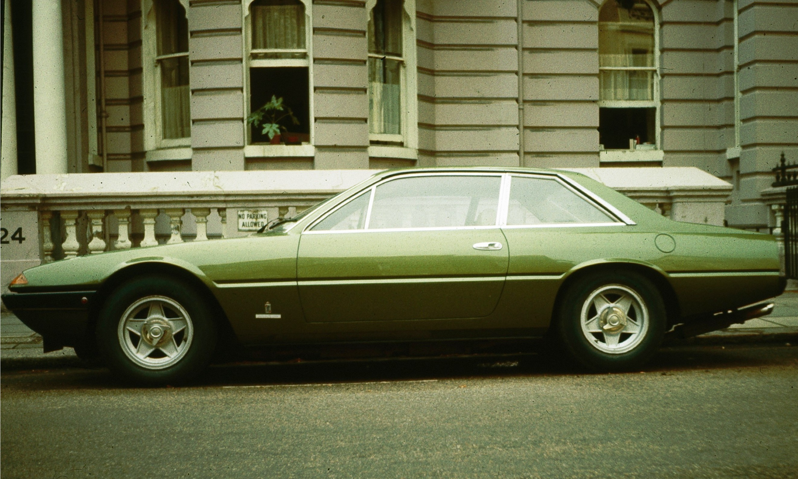 Ferrari Daytona 365 2+2 in profile. Green